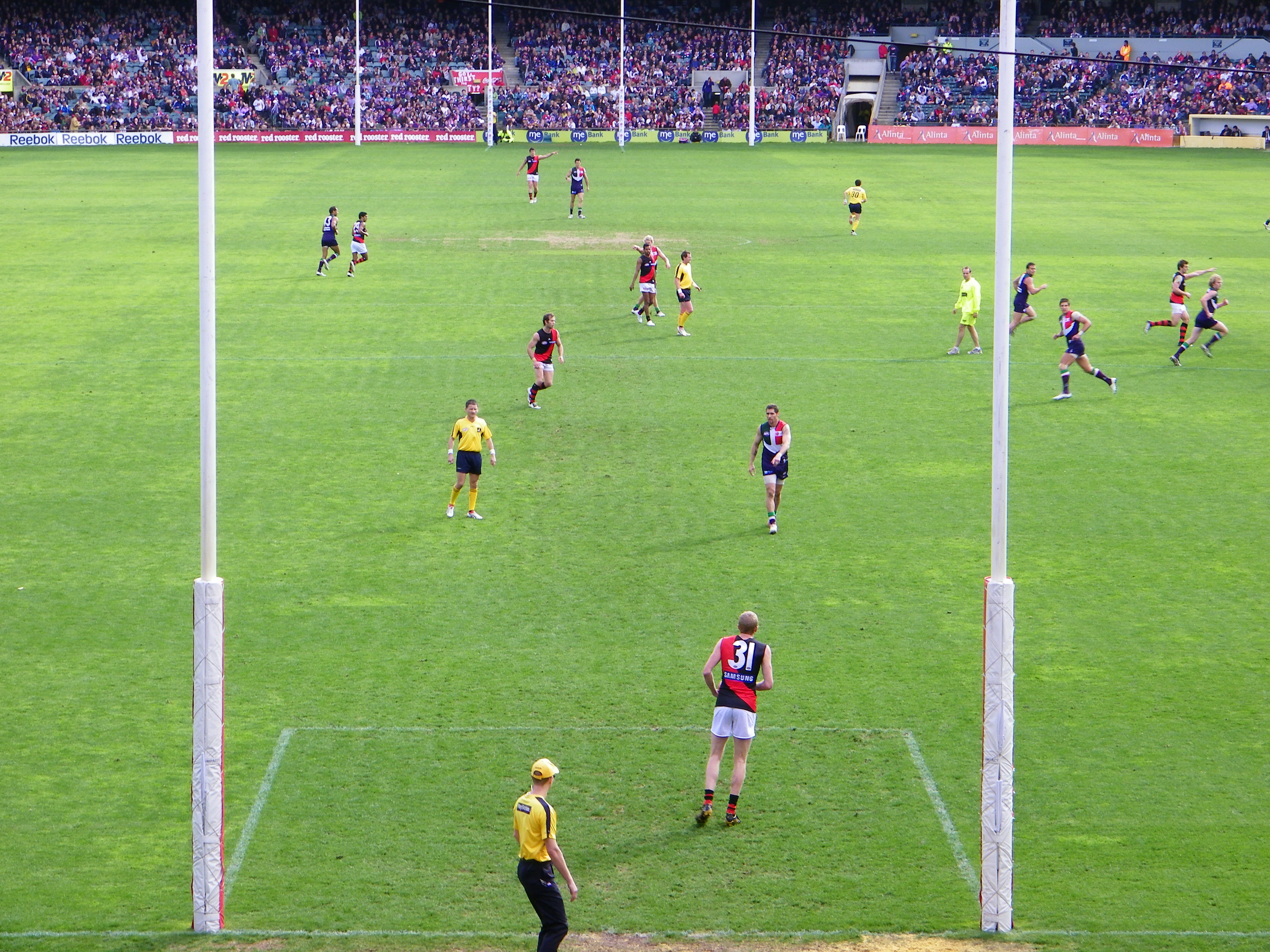 Dustin Fletcher of Essendon preparing to kick-in during an Australian Football League match against Fremantle in round 21, 2009 (August 23).